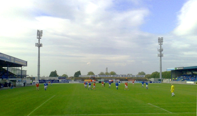 Mourneview Park, Lurgan Home to Lurgan soccer side Glenavon Football Club. The stadium opened in the 1920s and has been added to greatly since. The terracing directly opposite ("The Hospital End") will soon be the next victim of the stadium regeneration. This file has been extracted from another file: Mourneview Park, Lurgan - .uk - 1389685.jpg